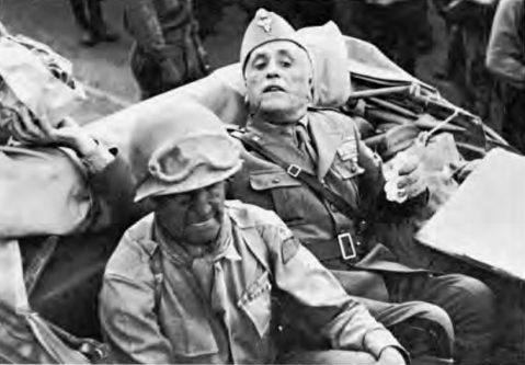 U.S. General Keyes and italian General Molinero enter Palermo together following surrender of the city.